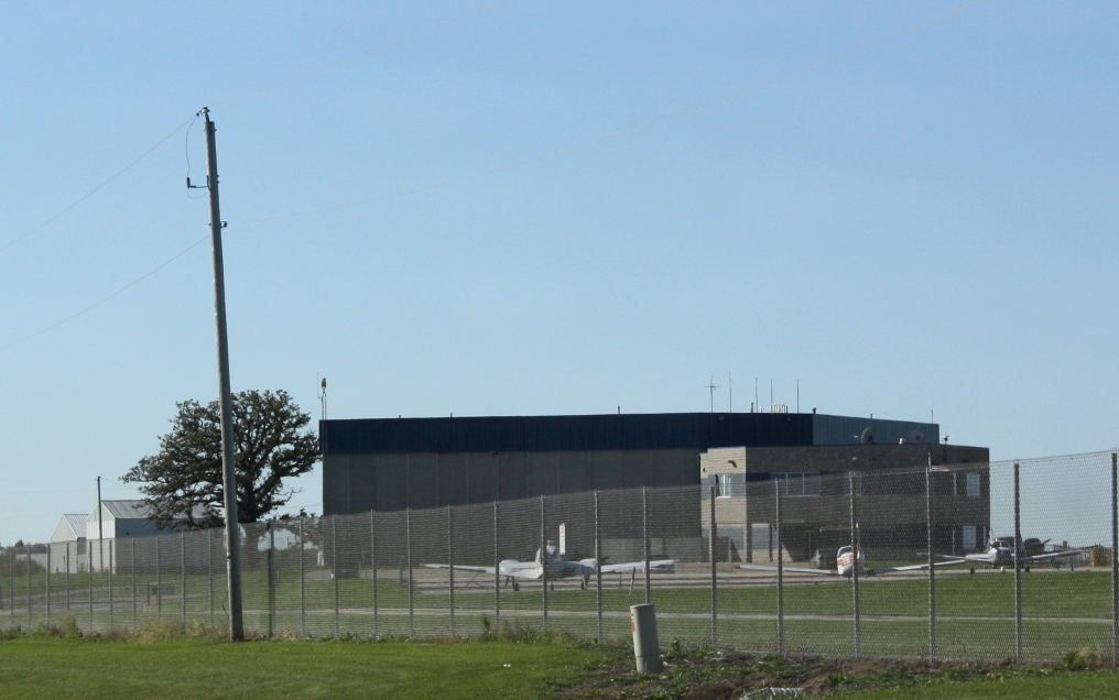 The Dodge County Airport along Wisconsin Highway 26.